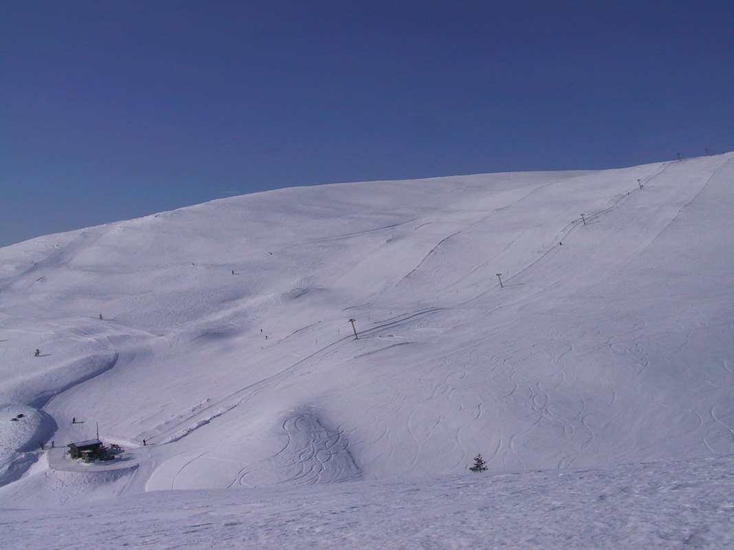 Pallas ski resort, Muonio, Lapland, Finland. Laukukero fell ski lift and slope, seen from Pyhäkero fell.